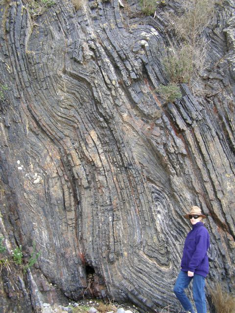 Folded rock formation near Moruya, New South Wales, Australia Photo: D.M. Vernon Date: 2006